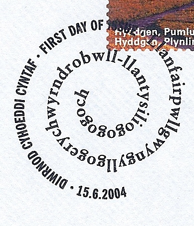 scanned correspondence